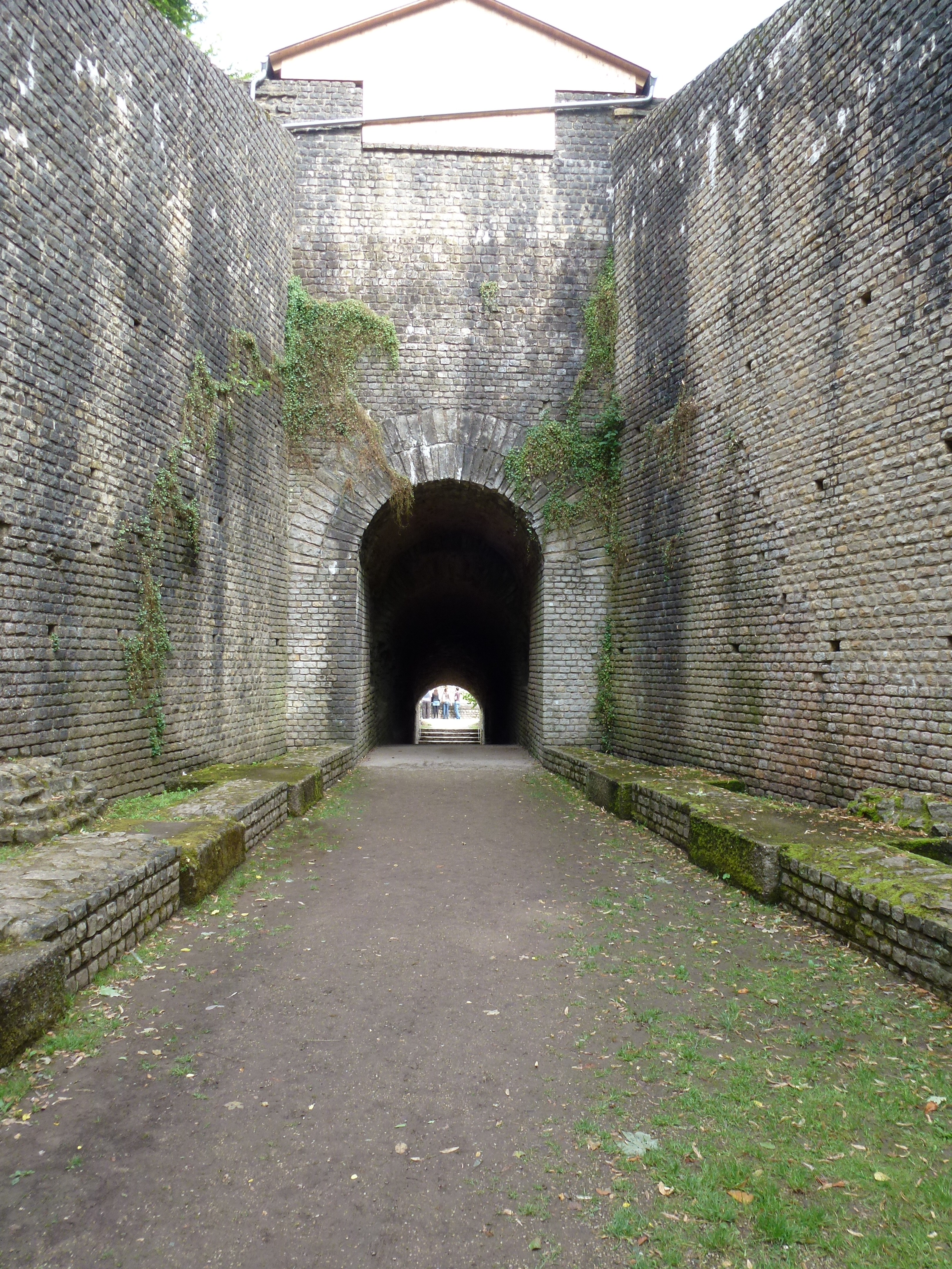 A vomitorium at the Roman amphitheatre in Trier